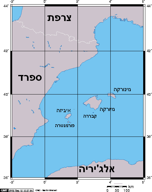 Hebrew translation of the image Image:Balearic.png (map of the Balearic Islands)